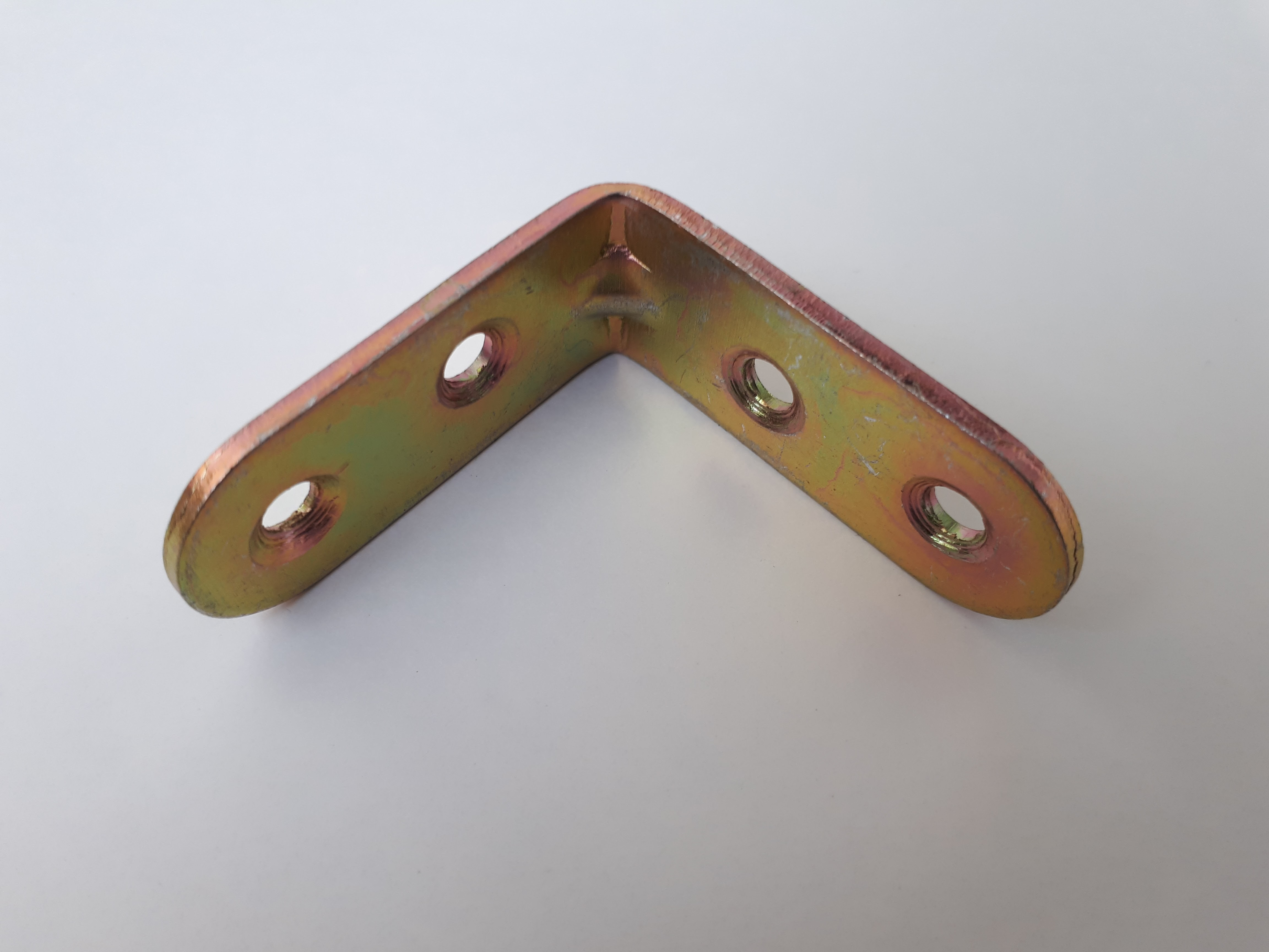 Bronze angle bracket with 40 x 18 x 2 mm each arm. Price for a set of 4 pieces and 16 screws: 1 Euro